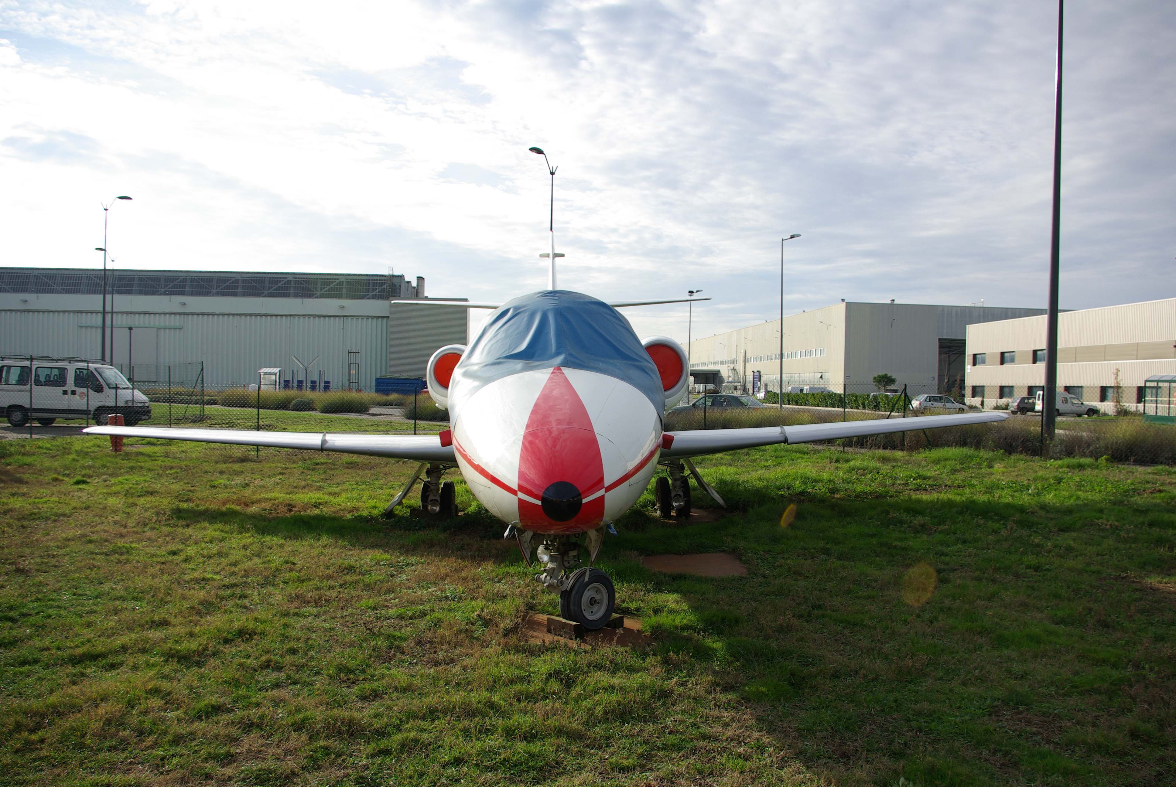 The Falcon 10 which serve as flying test bed for the jet engine Snecma-Turbomeca Larzac, the aircraft is displayed at the musée des ailes anciennes (Toulouse, France)